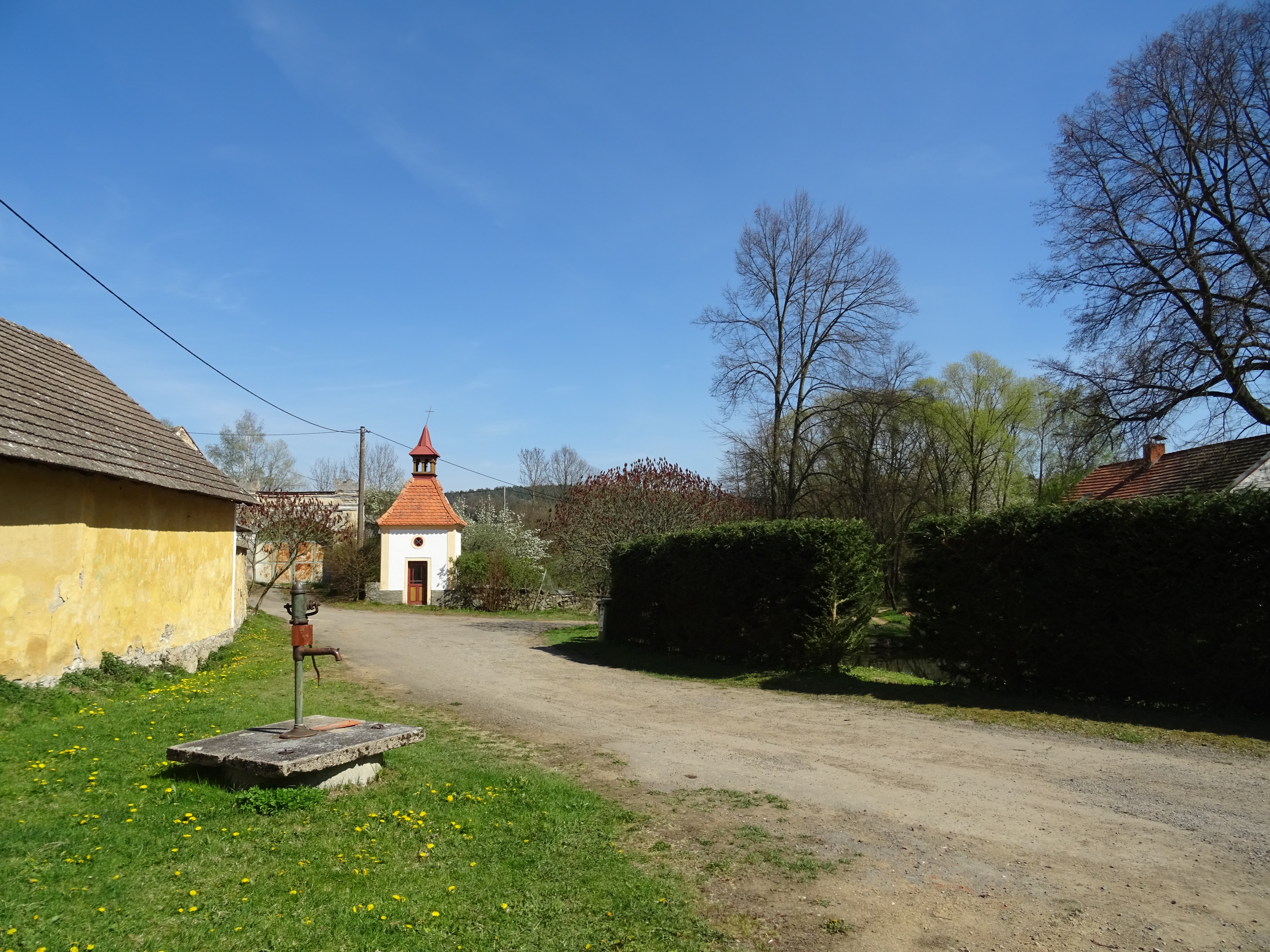 This photograph was created as a part of Wikiexpedition Mladá Vožice, a project supported by Wikimedia Foundation grant.